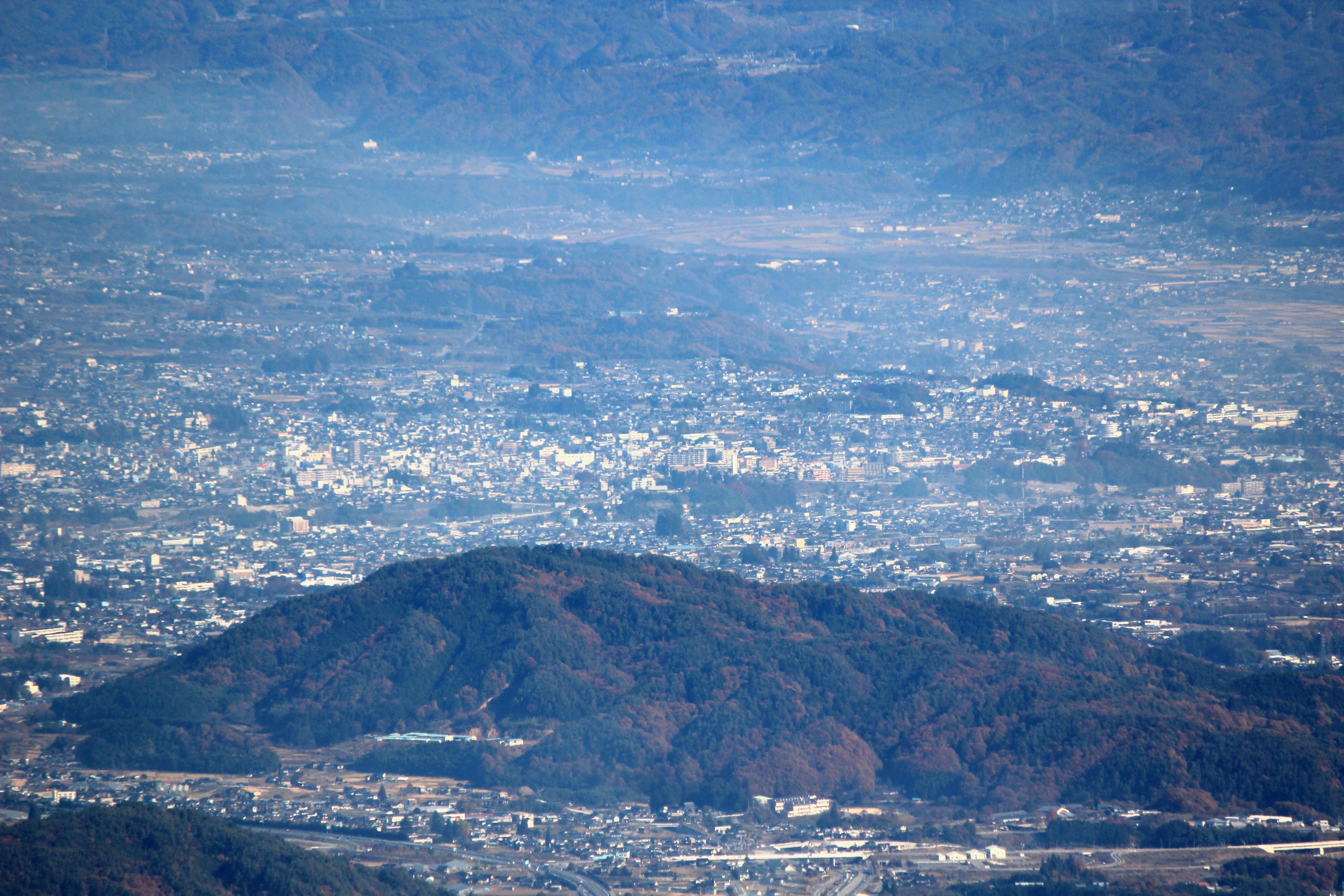 Iida city from Mount Ōkawairi in Kiso Mountains, Nagano prefecture, Japan.